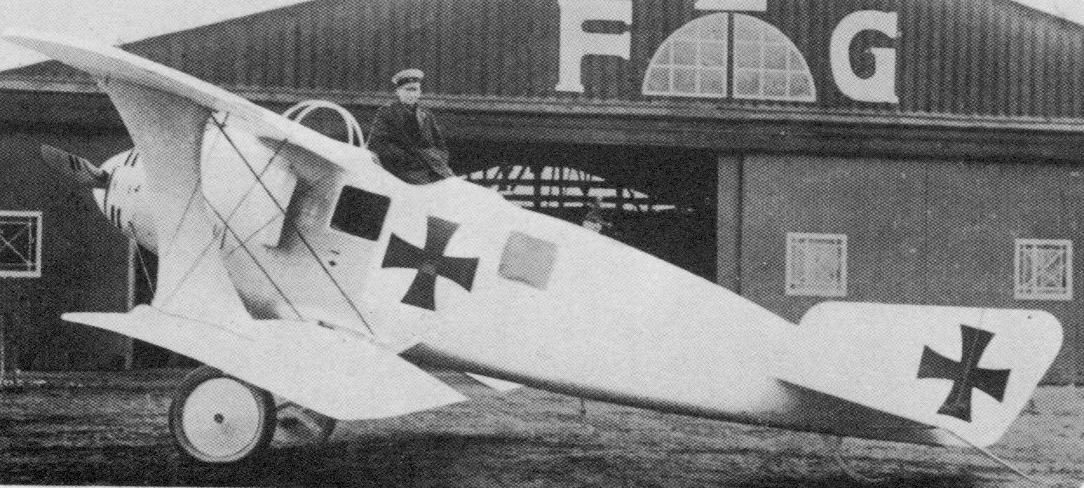 LFG - Roland C.II